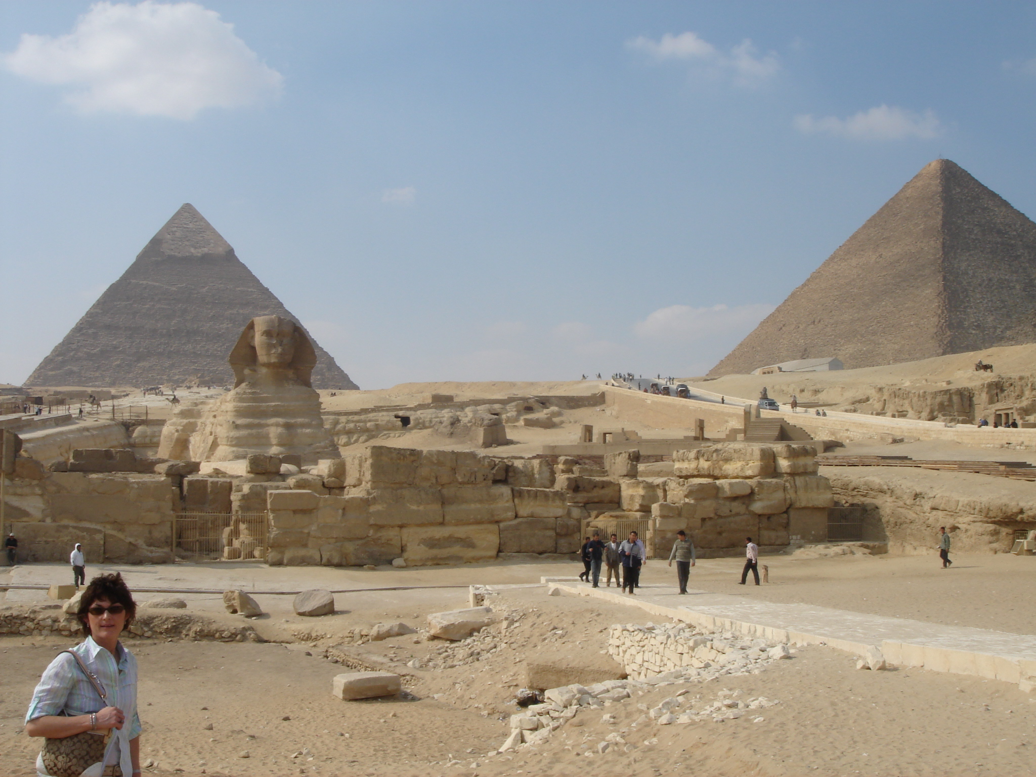 Pyramids of Giza and the Great Sphynx, Egypt Author: Ahmed Dokmak